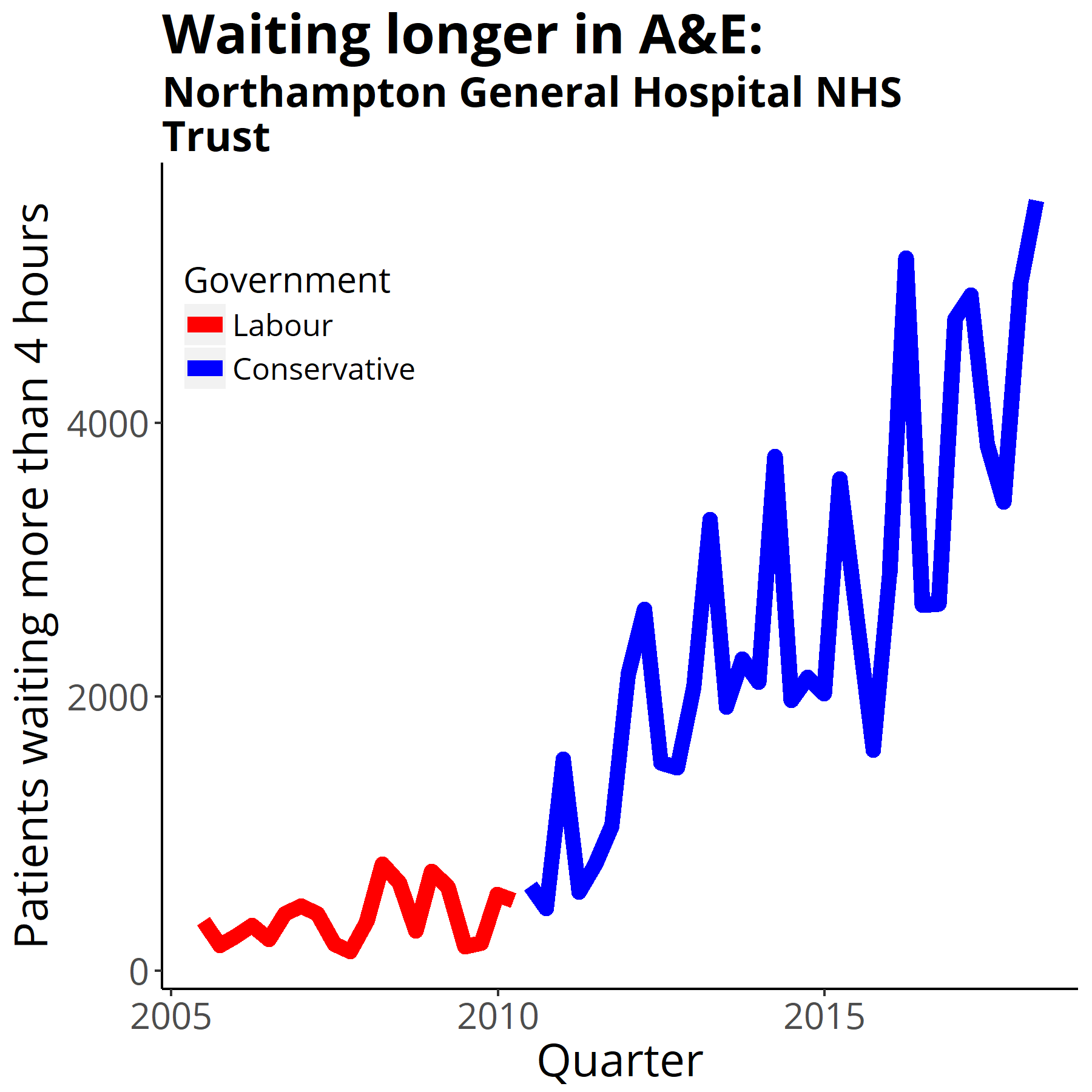 Four-hour target in the emergency department quarterly figures from NHS England Data from